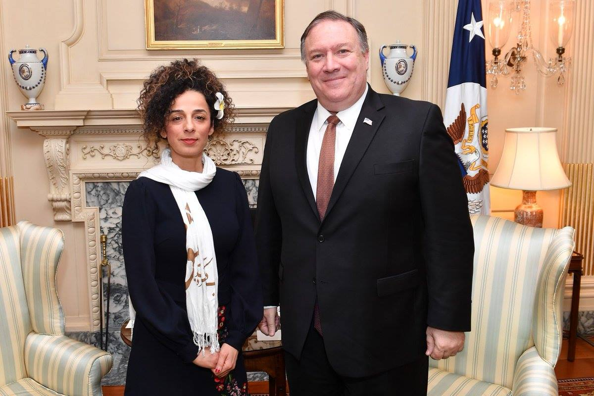 Secretary Pompeo's Meeting With Iranian Women's Rights Activist Masih Alinejad